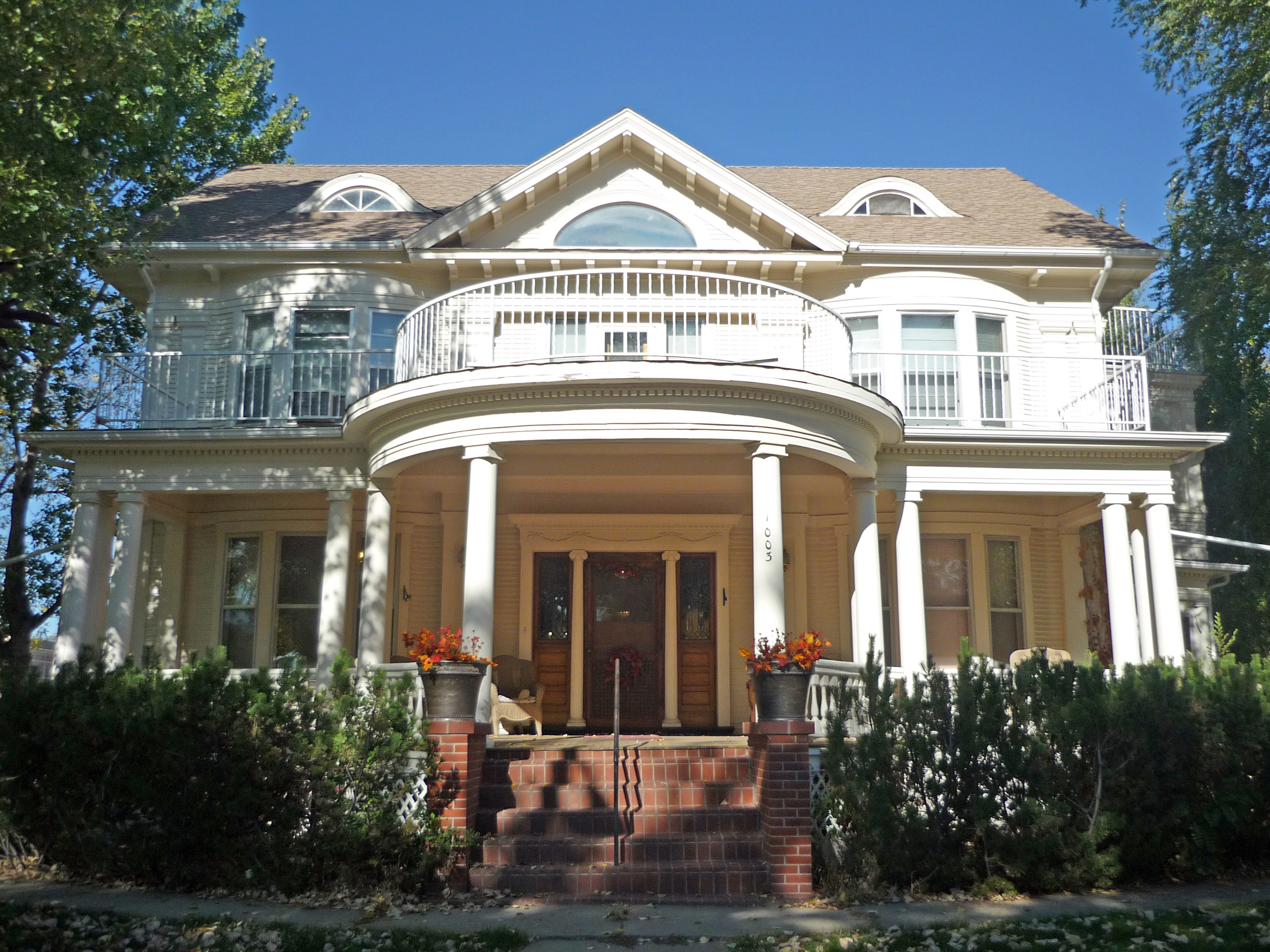 Ulmer House, Miles City, Montana, part of the Carriage House Historic District on the National Register of Historic Places